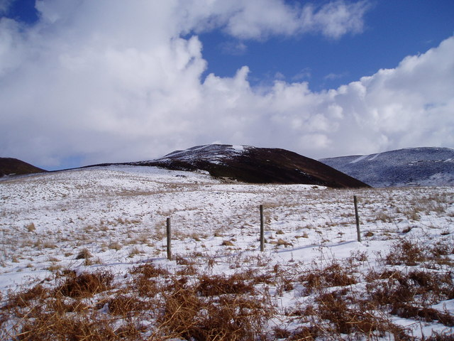 Moel y Plâs. Lower summit of Moel y Plâs at 413m